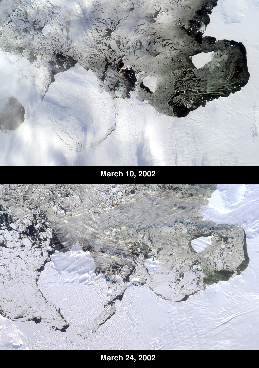 Satellite image of icebergs adrift in the Amundsen Sea. Created by the NASA team from MODIS